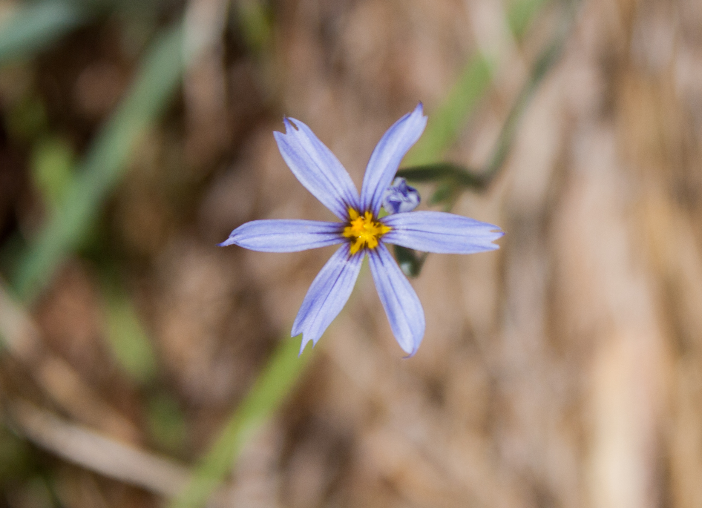 St. George Blue-Eyed Grass (Sisyrinchium radicatum), RRCNCA While many wildflowers have begun to fade, there is still time to enjoy the last spring season blooms at Red Rock Canyon National Conservation Area. Since Red Spring had so much to offer the prior week, we decided to return in hopes of seeing more wildflowers. As we traveled along State Route 159, we spotted the deep purple flowers of the Indigo Bush. These were in full bloom, while at Red Spring this same plant was just catching up. Once we arrived at Red Spring, we noticed the Joshua Tree flowers had disappeared. Even though these giant white blooms of the Joshua Tree have passed, they have left an abundance of fruit behind. In the same area, the Creosote also displayed cotton-like fruit, as well as tiny yellow flowers. As we continued along the trail, we saw nearby in an outcrop of Shinarump conglomerate (highly resistant course-grained sandstone and pebble mix) with numerous Strawberry Hedgehog Cactus in bloom, as well as tiny purple-colored flowers of the Range Ratany. We also visited Red Spring once more to see the Pretty Shooting Stars fading, but in their absence St. George Blue-eyed Grass was thriving. Saving the best for last, we came upon a disturbed hillside to find the delicate white flowers of the Desert Bearpoppy. This wildflower is a definite rare treat with it being listed as a species of conservation concern. Worried that the harsh winds may have broken the delicate fuzzy stems, we were happy to see that the new blooms had withstood the haphazard weather. Other blooms in the area include Amsonia, Scarlet Guara, Paperflower and a purple Globemallow. As the temperatures begin to rise, the chance to see these unique flowers will be coming to an end, so be sure to get out and enjoy them while you can! Photo by Chelise Simmons/BLM/2013